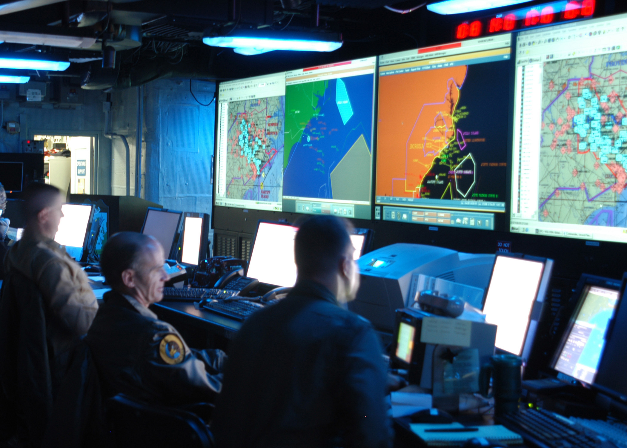 Mediterranean Sea (June 16, 2005) - Joint Operations Center watch standers review the latest battle assessment while participating in Combined Joint Task Force Exercise (CJTFEX) 04-2 aboard the command ship USS Mount Whitney (LCC 20). U.S. Navy photo by Photographer's Mate 2nd Class Greg Roberts (RELEASED)